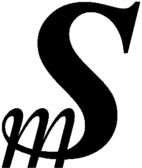 The italic spesmilo sign for the obsolete Esperanto currency, a ligature of S and m. From Vikipedio. This work is based on a work in the public domain. It has been digitally enhanced and/or modified. This derivative work has been (or is hereby) released into the public domain by its author, kwamikagami. This applies worldwide. In some countries this may not be legally possible; if so: kwamikagami grants anyone the right to use this work for any purpose, without any conditions, unless such conditions are required by law. 13:45, 12 May 2005 Kwamikagami 288x340 (2104 bytes) (Left half of the image. )